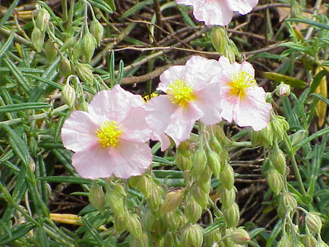 Species: Helianthemum apenninum roseum Family: Cistaceae Image No. 1